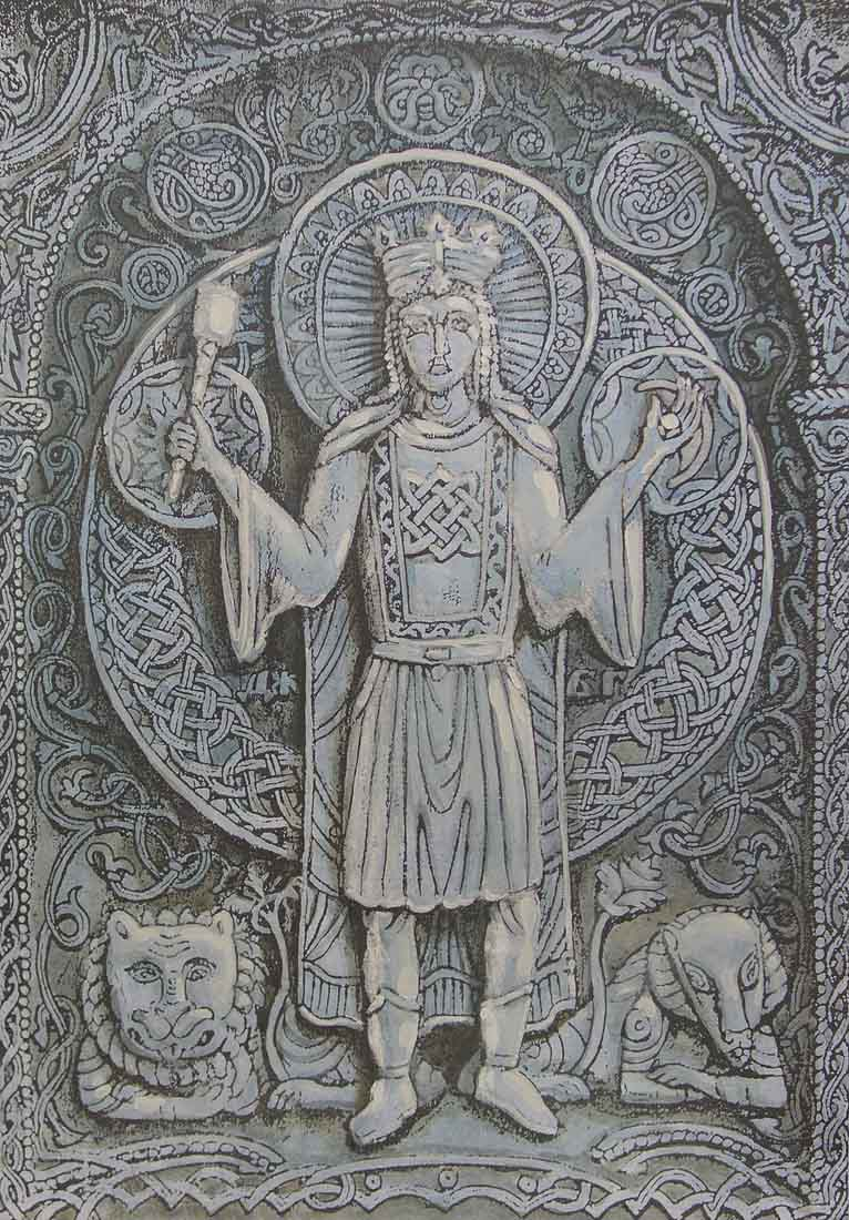 Dažbog